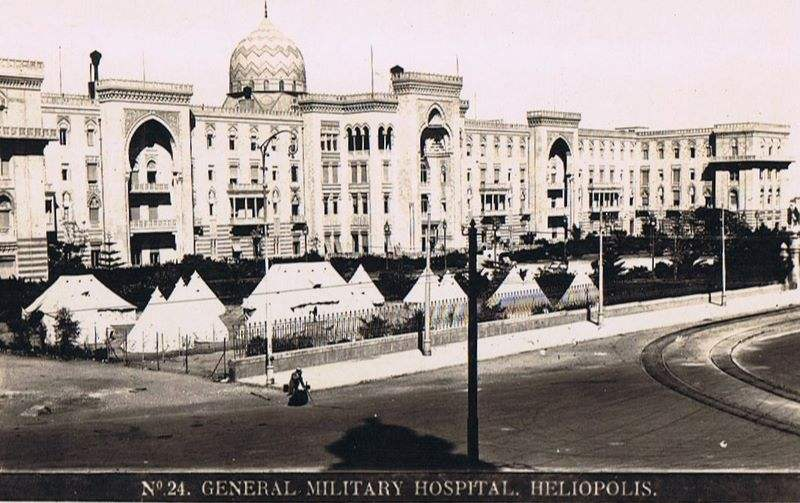 No.24 General military hospital, Heliopolis. During WW1, the Australian Army established a number of facilities in and around Cairo. A Field Hospital was set up in Luna Park and a large base camp at the aerodrome. The large Heliopolis Hotel became No. 24 General Hospital. There was a Training Base at Zeitoun (Dad’s Zutun) occupied by New Zealand units. After their return from Mudros after the withdrawal from Galippoli the 3rd Australian General Hospital was established at Abbassaia.